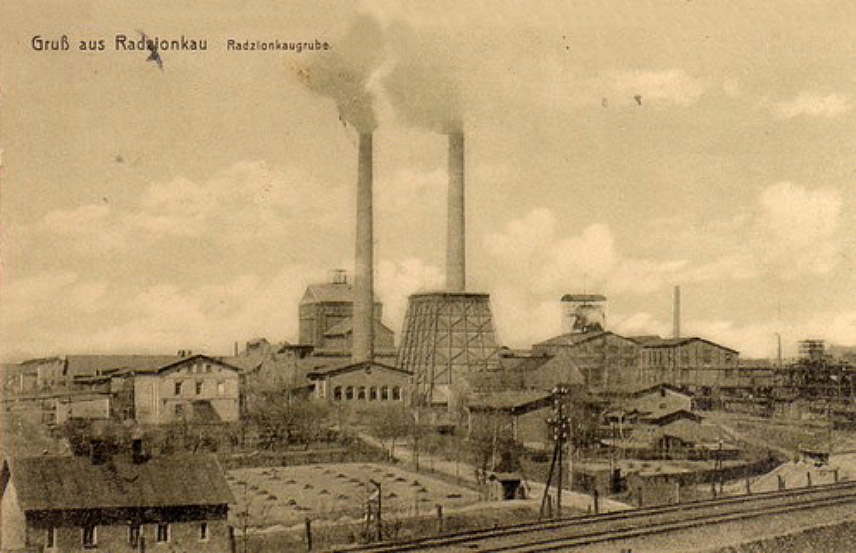 postcard depicting Radzionkaugrube – later coal mine Radzionków in Radzionków, Poland